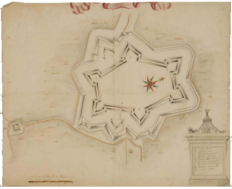 Map of fortifications Bredevoort